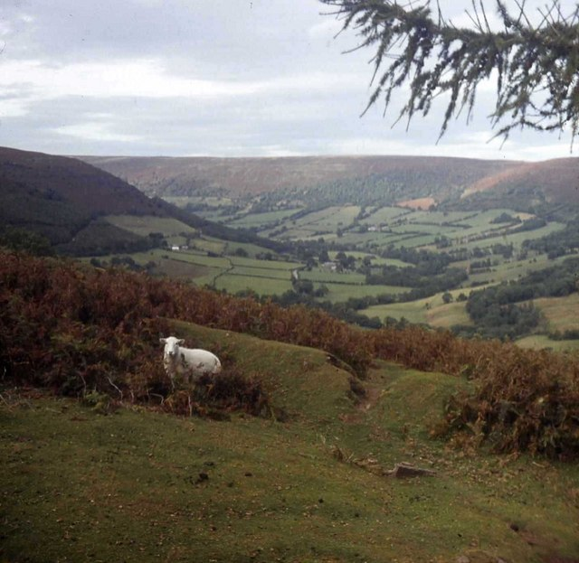 View up the Vale of Ewyas from near Upper House.